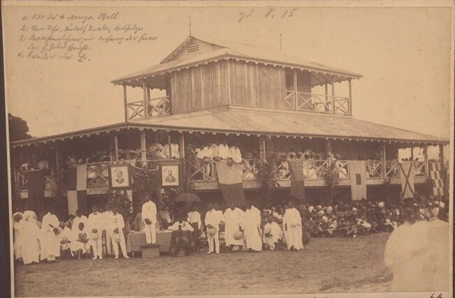 Funeral of Rudolf Duala Manga Bell, hanged for high treason against the German Empire in August 1914.